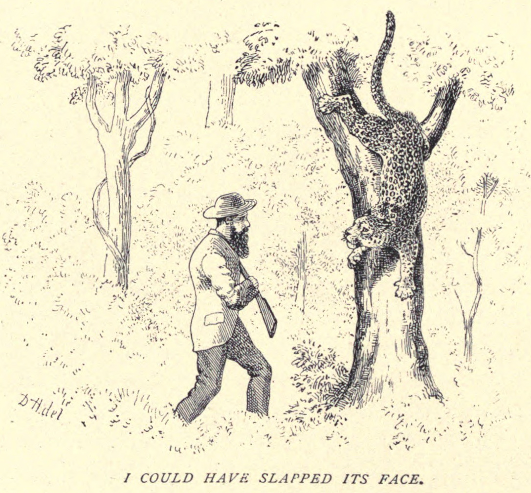 Douglas Hamilton, I_Could_Have_Slapped_His_Face...